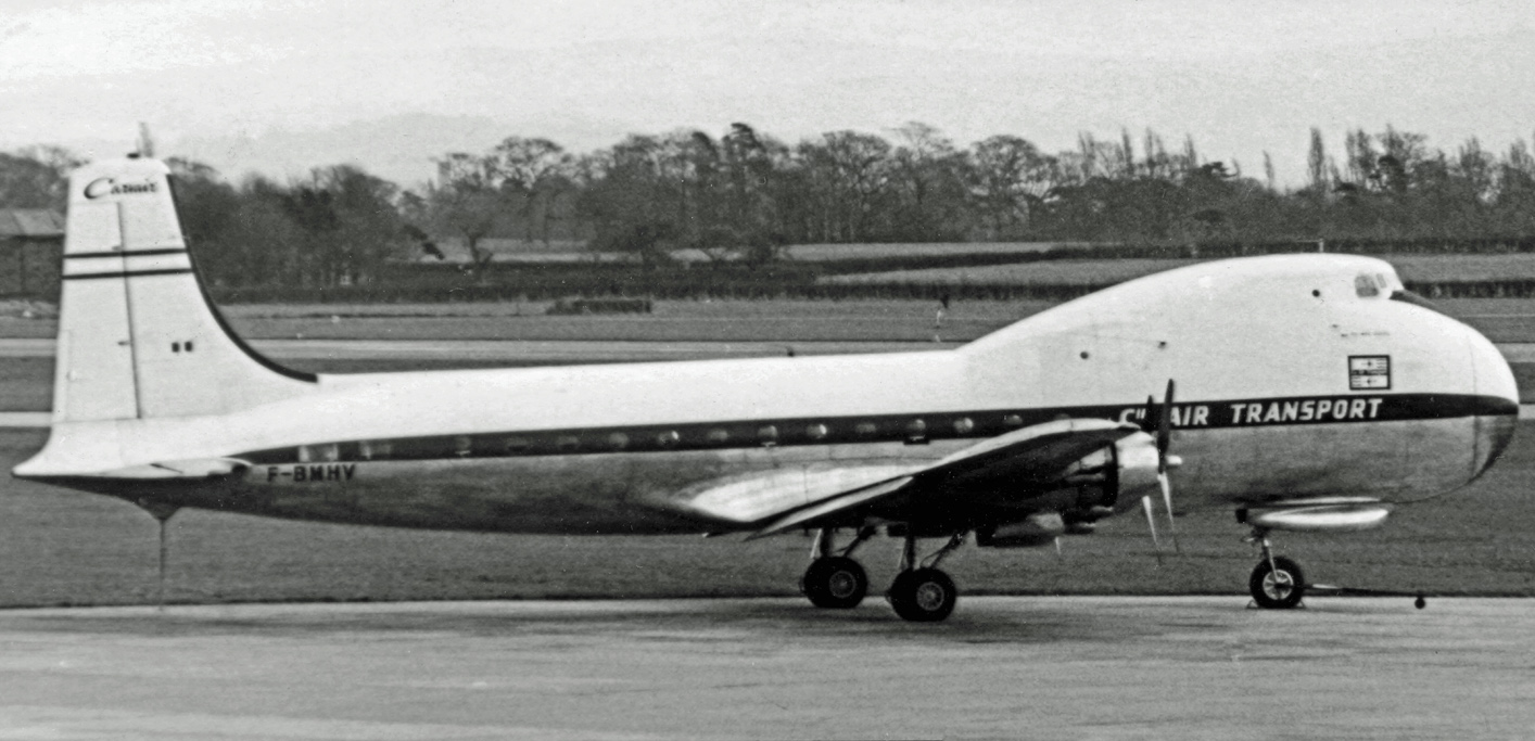 Aviation Traders Carvair F-BMHV of Compagnie Air Transport at Manchester Airport in 1967